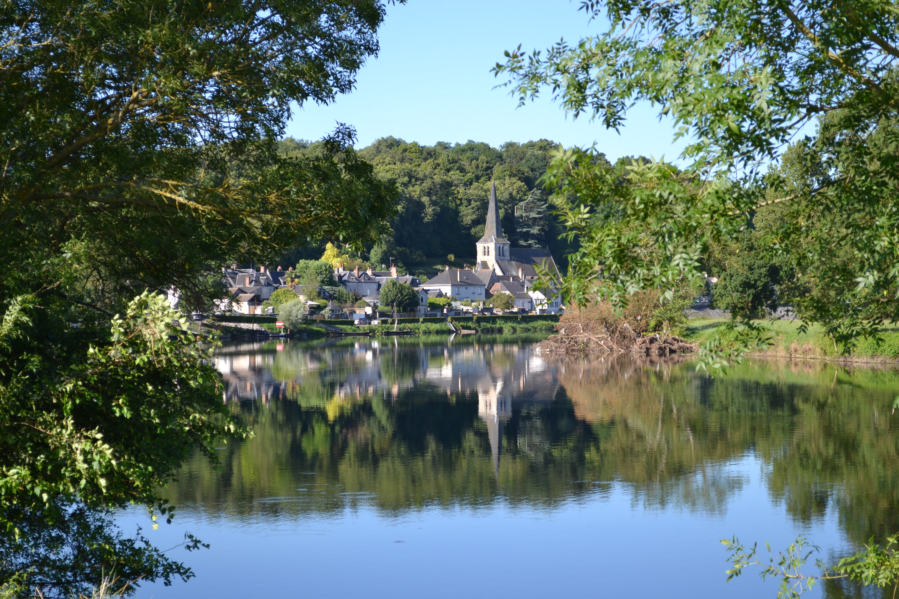 View of the river Cher and the church of Savonnières in the Loire Valley